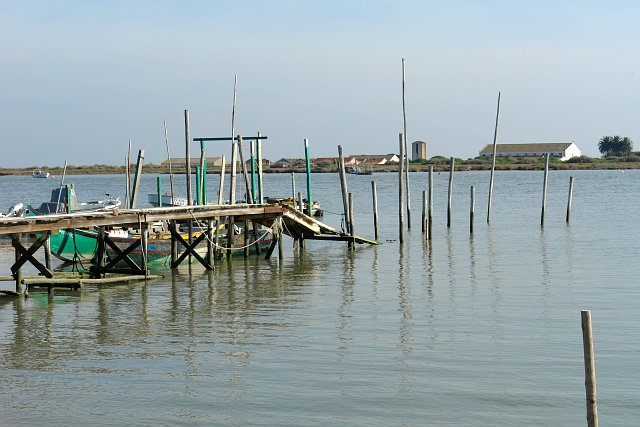 Tagus river in Póvoa, Portugal. Photographer: Osvaldo Gago